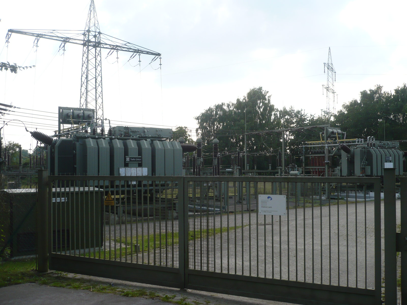 Transformer station of RWE in Meerbusch, Germany